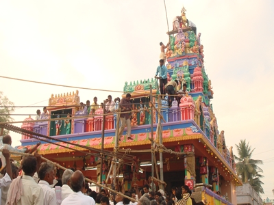 Ramaalayam Temple